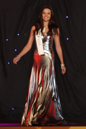 Miss Wales 2008 Chloe-Beth Morgan during Miss World 08